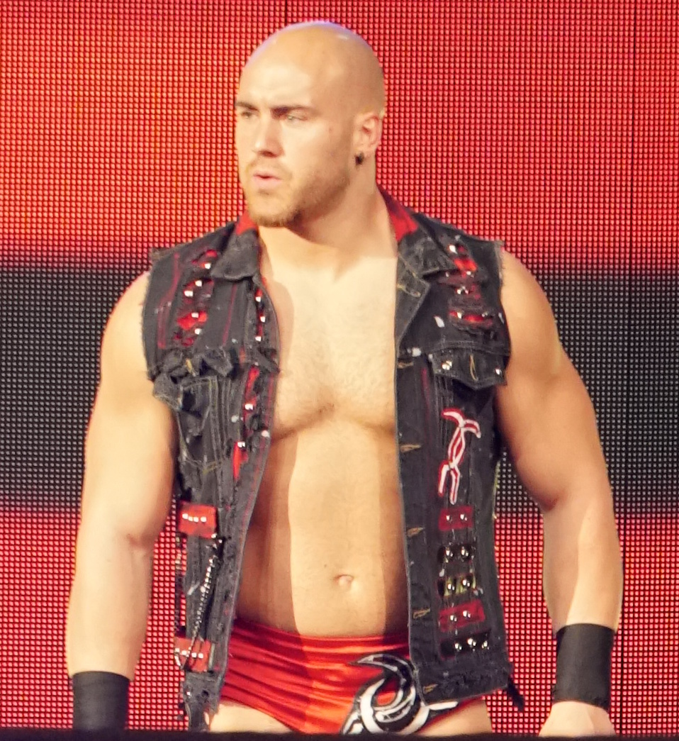 Fabian Aichner at WWE Axxess in April 2018.